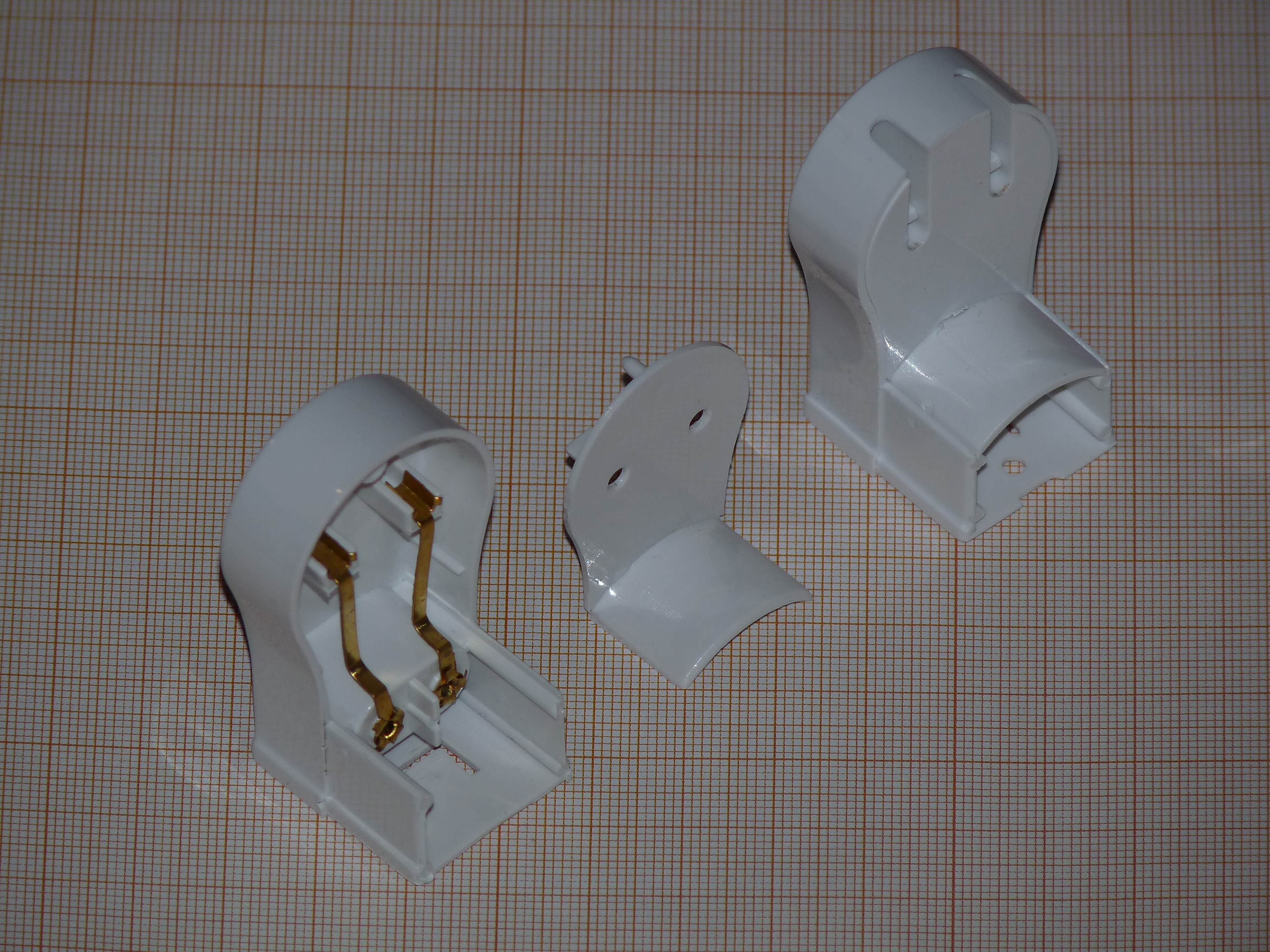 G13 lampholder for linear LED light bulbs